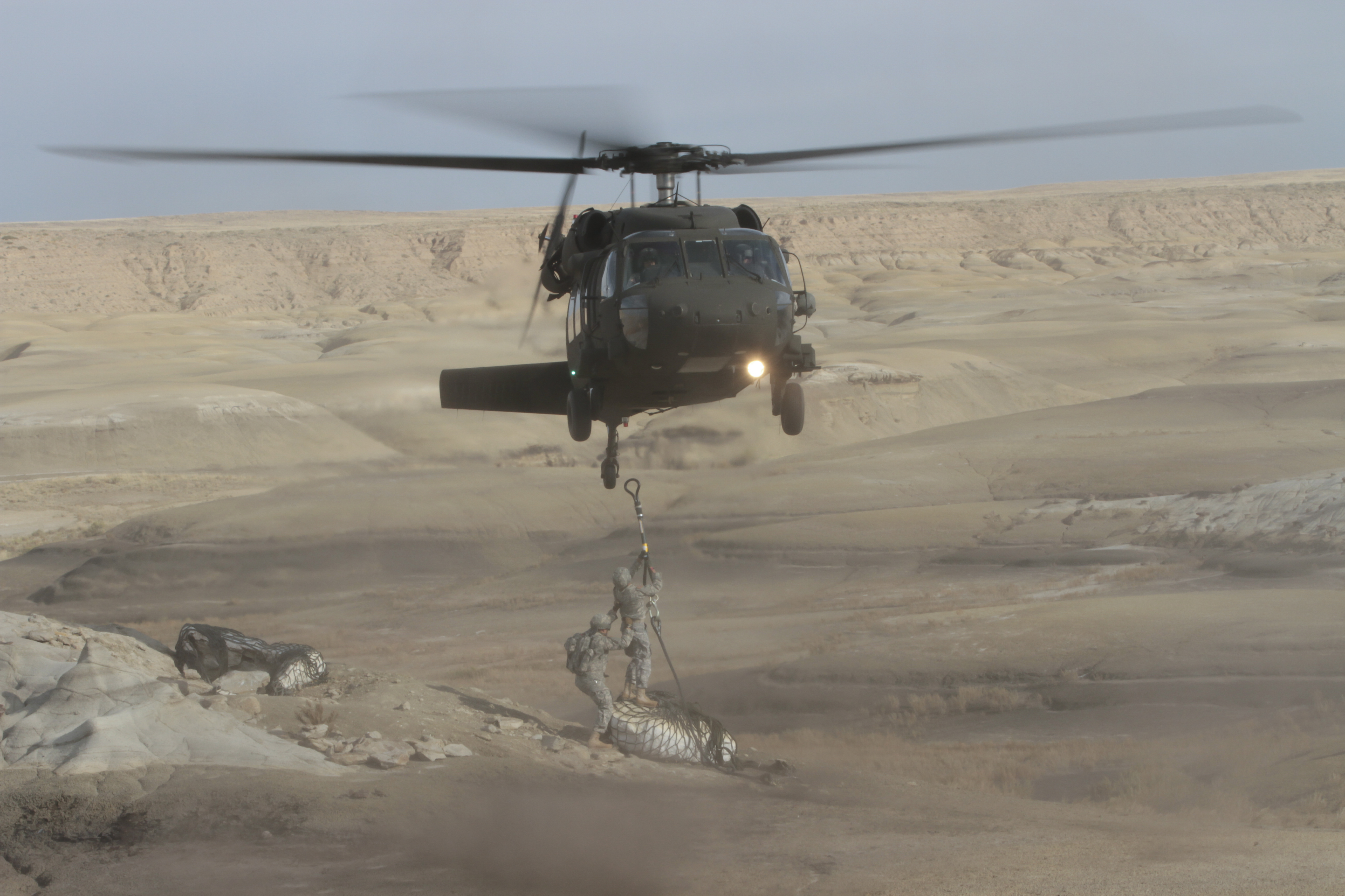 Company C, 1st Battalion, 171st Aviation, UH-60 Black Hawk crew consisting of pilots Maj. Daniel Purcell and Capt. Kevin Doo, and crew chiefs Sgt. 1st Class Dennis Cahill and Sgt. Saul Monarez airlift a unique sling load of a baby Pentaceratops dinosaur skull out of the Bisti/De-na-zin Wilderness Area Oct. 29, 2015. Sgt. Bryan Haworth and Spc. Alonzo Romero, both of 1st Battalion 200th Infantry, hook the 4,500 pounds load onto the belly of the aircraft. The New Mexico Army National Guard conducted a civil-military community support project Oct. 28-29, assisting the New Mexico Museum of Natural History and Science in transporting 65 million-year-old Pentaceratops dinosaur fossils from the Bisti and Ah-Shi-Sle-pah Wilderness Areas to the museum in Albuquerque, N.M. (Released, Photo by Sgt. 1st Class Anna Doo, New Mexico National Guard Public Affairs)